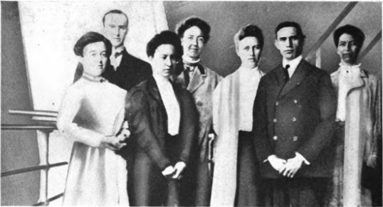 Zenas Sanford Loftis and other people on board the SS Mongolia